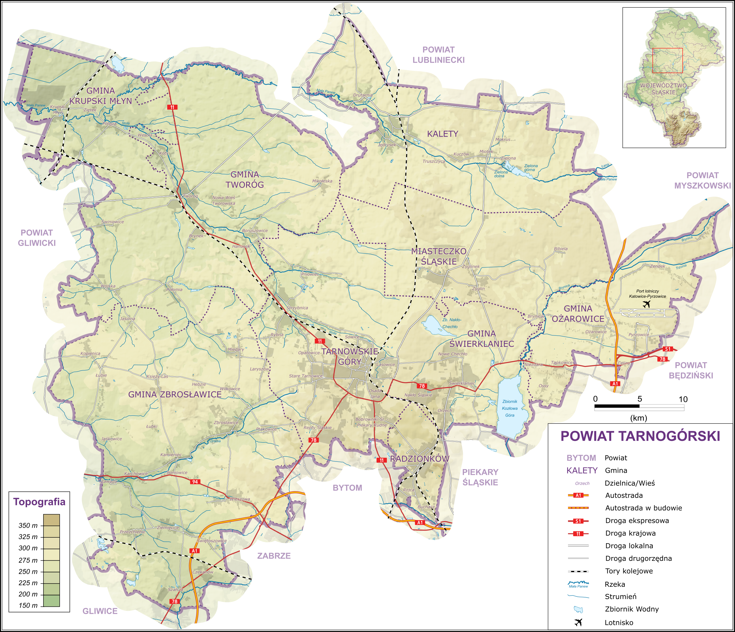 General map of Tarnowskie Góry County